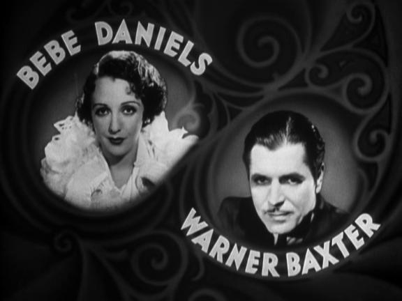 Frame from public domain trailer for 1933 Warner Bros. film 42nd Street showing Bebe Daniels and Warner Baxter and their names in type